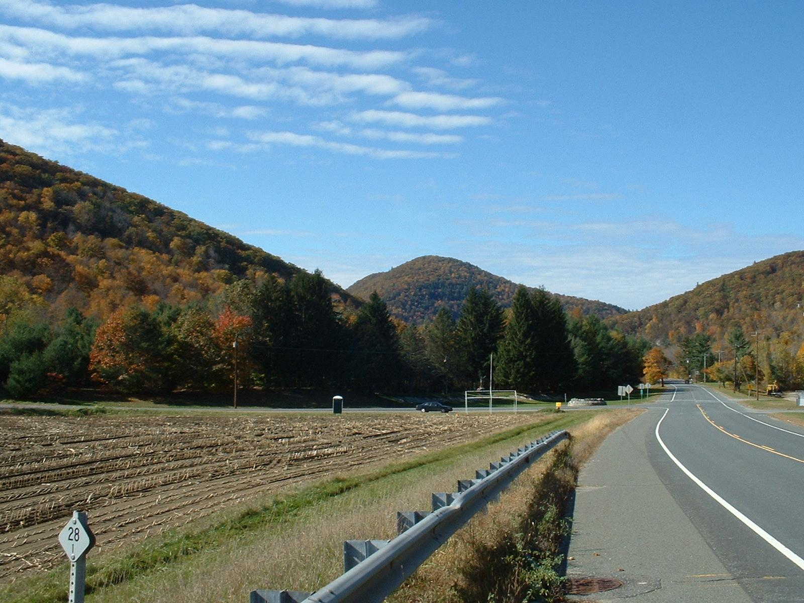 The Mohawk Trail in Charlemont, Massachusetts with Mohawk Park (center) and Todd Mountain (rear, center), Mohawk Trail near Tower Rd, Charlemont, MA